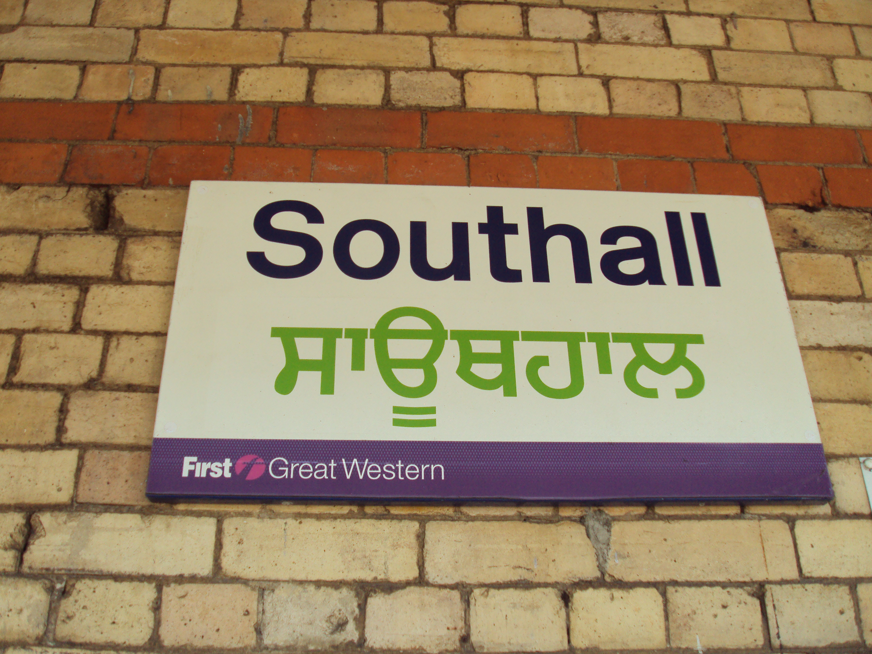 Bilingual sign in English and Punjabi at Southall railway station, west London.